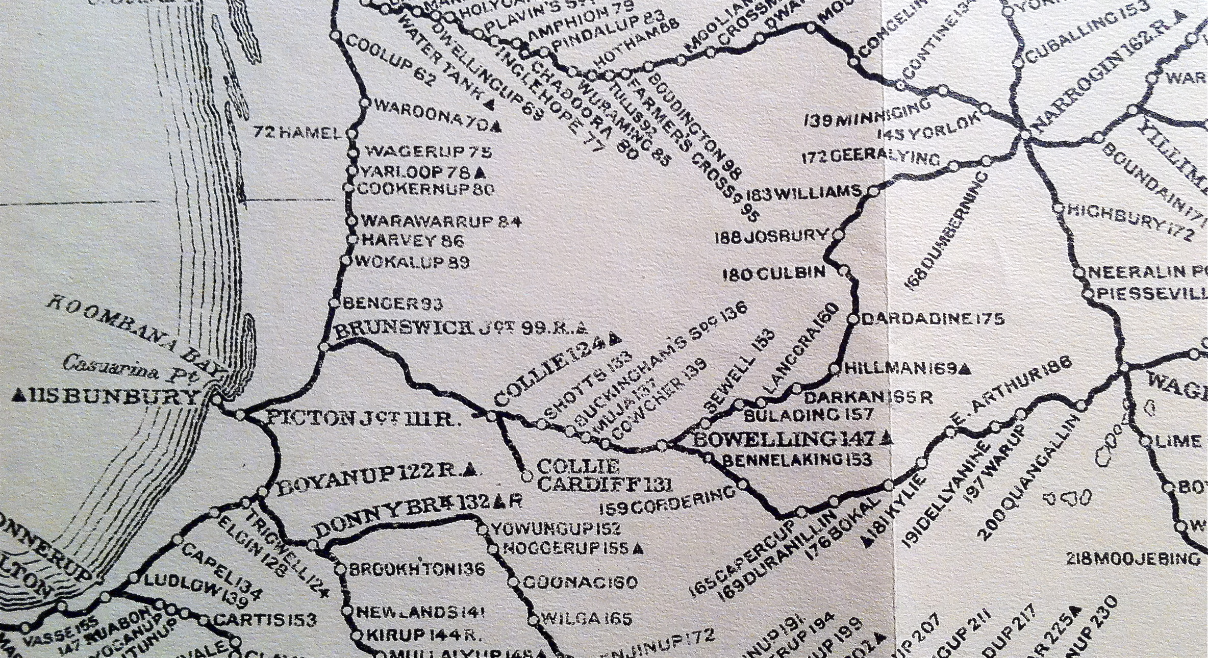 A section from the Western Australian Government Railways network map of 1935 with Bowelling, Western Australia at slightly lower than centre